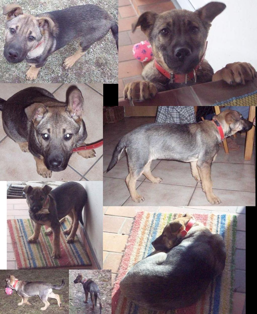 my little mongrel with 15 weeks. Although it might be possible, that she is younger than previously thought. The differences in shape and color are visible (e.g. longer lengs, darker back). The ears are turning more and more upward, although it still differs from time to time, as can be seen.